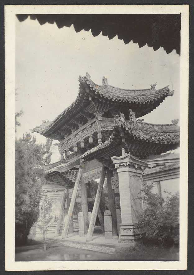 An arch Pailou in honor of the Chinese muslim general Ma Anliang photographed in 1933 in Dahejia, Gansu Sheng, China.